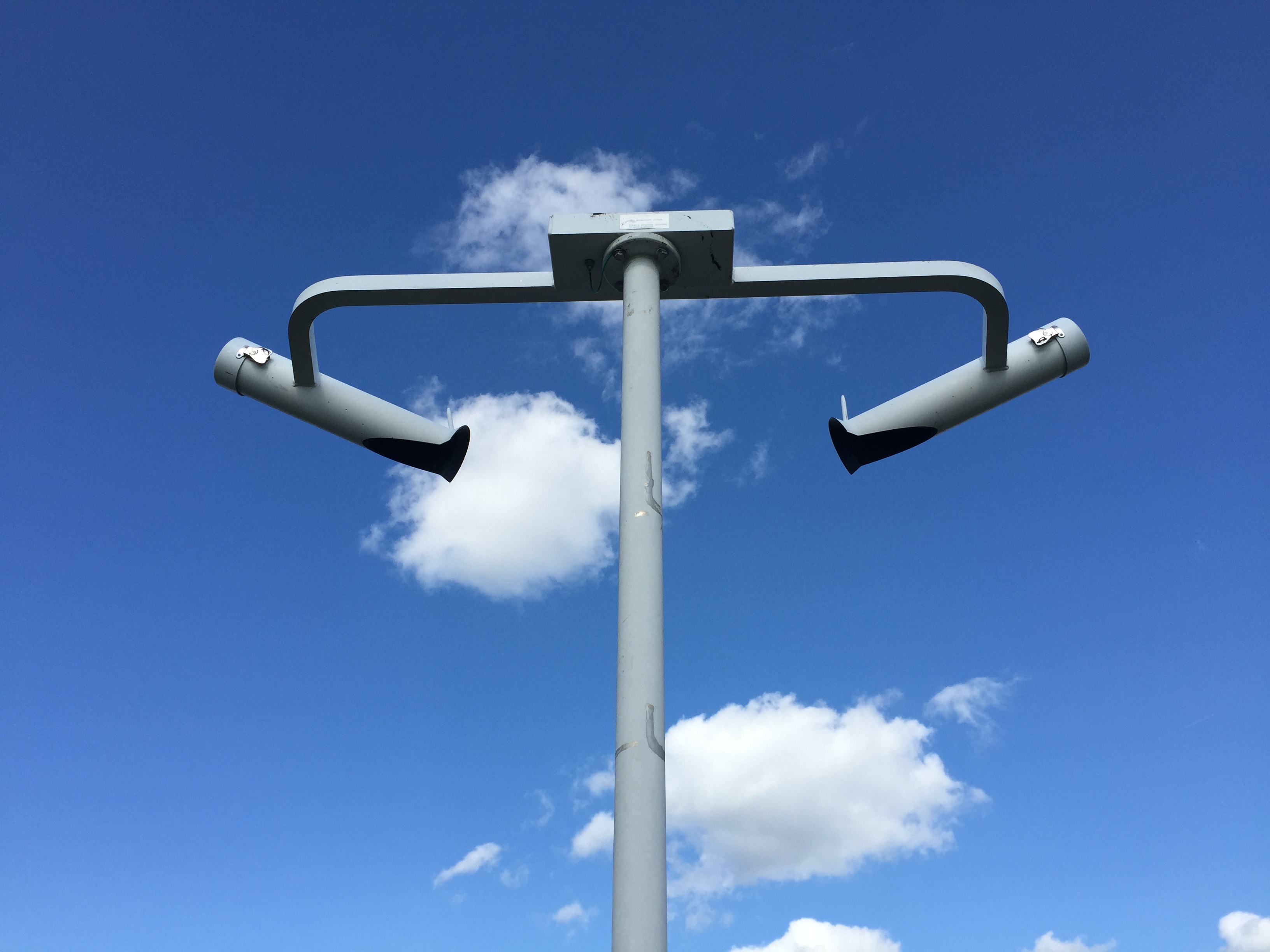 Visibility sensor for an Automated Surface Observing System (ASOS) at the National Weather Service's Sterling Field Surpport Center in the Dulles section of Sterling, Loudoun County, Virginia